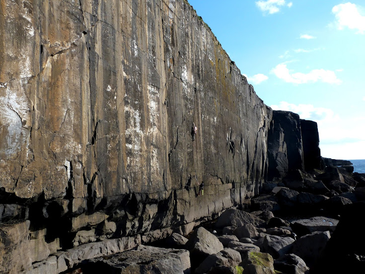 Photograph of Mirror Wall in the sea cliff of Ailladie, in County Clare, Ireland